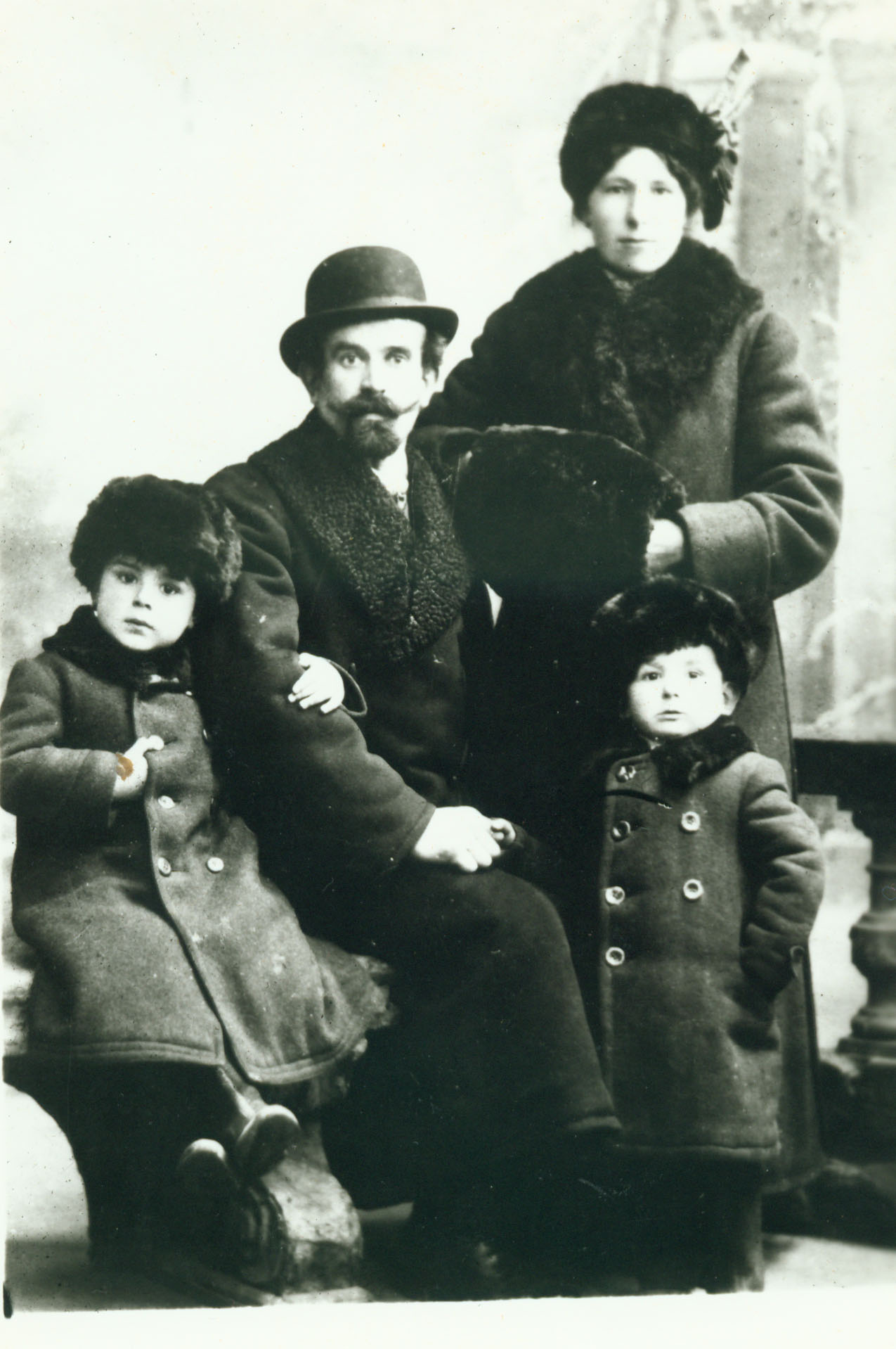 Иван Иосифович Баньковский (1881—18.09.1946) с семьей. г. Владивосток